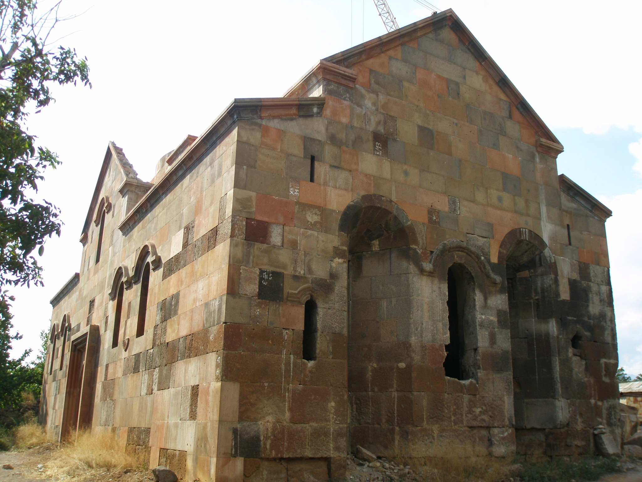 Voskevaz Church 87/21